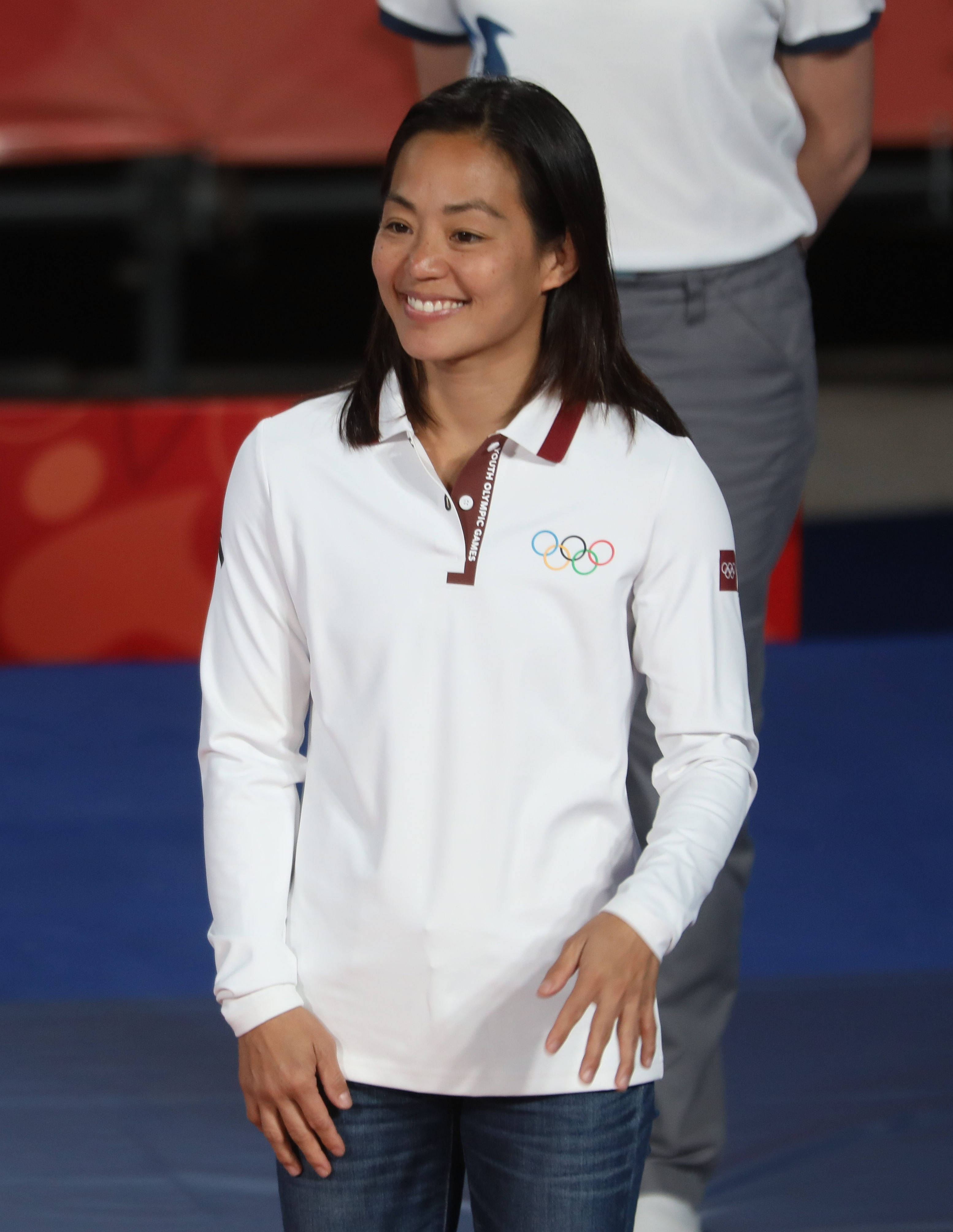 Wrestling victory ceremony of the boys 60 kg at the 2018 Summer Youth Olympics in Buenos Aires on 12 October 2018.